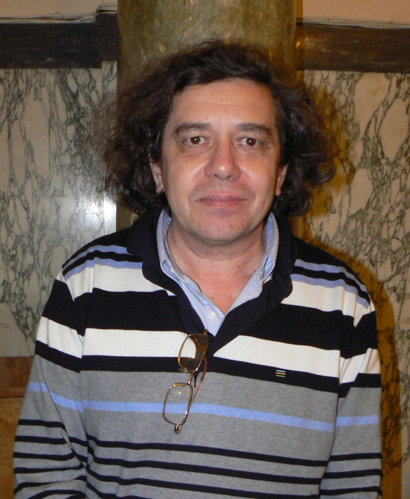 Bulgarian writer Rumen Belchev